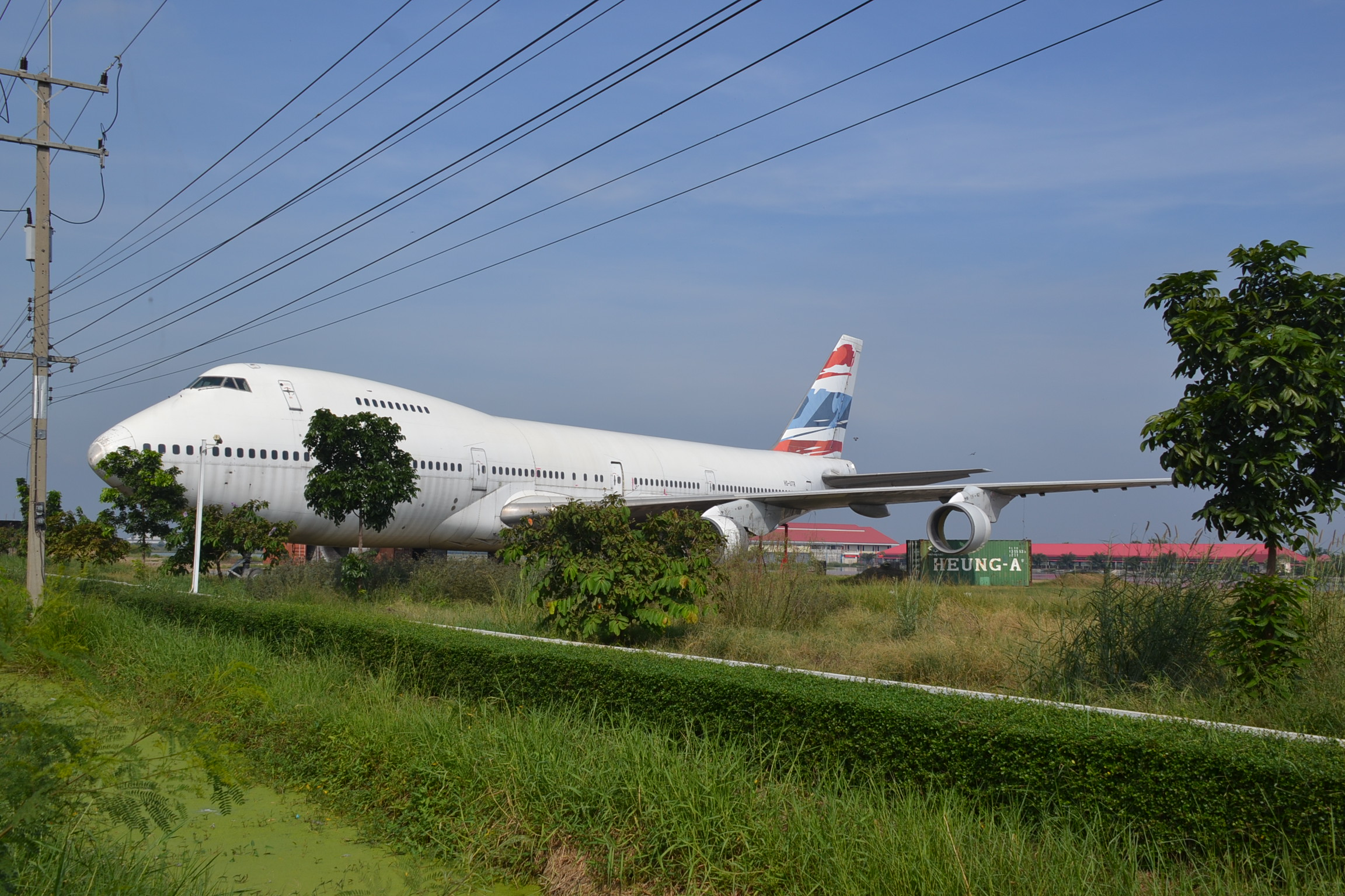 Boeing 747/2 formerly of Orient Thai on display at the intersection of highway 3036 & 346 near Lam Luk Bua, Nakhon Pathom, Thailand, 13/11/15. (14°02'21.4"N 100°05'39.0"E)